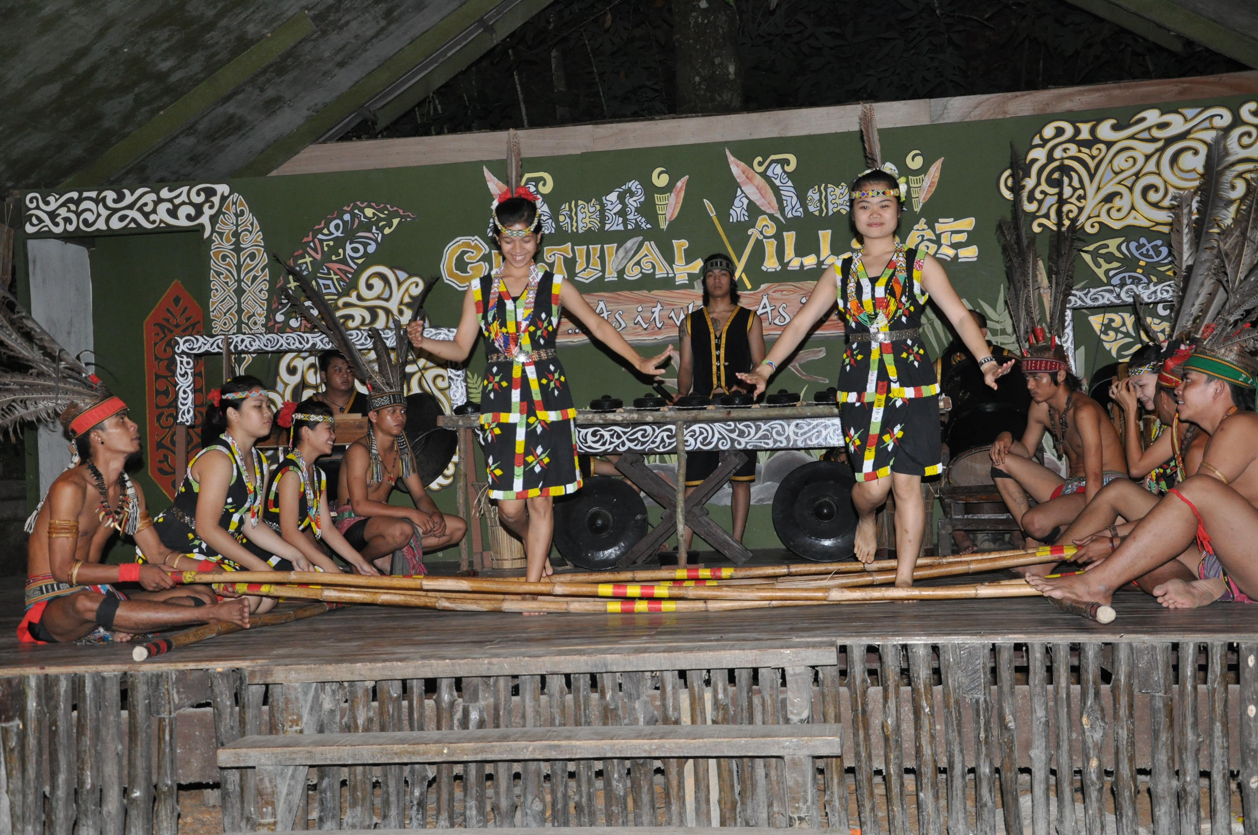 And then the ubiquitous bamboo pole dance was put on. This was beginning to wear on me now, I'd seen this in Thailand (2002), Bohol in the Philippines (2013) and several films of it being performed in India, parts of Eastern India etc. Still, it was interesting to watch, for these chaps did the complicated version with cross bamboo poles as well. (Kota Kinabalu, East Malaysia, Nov. 2013)